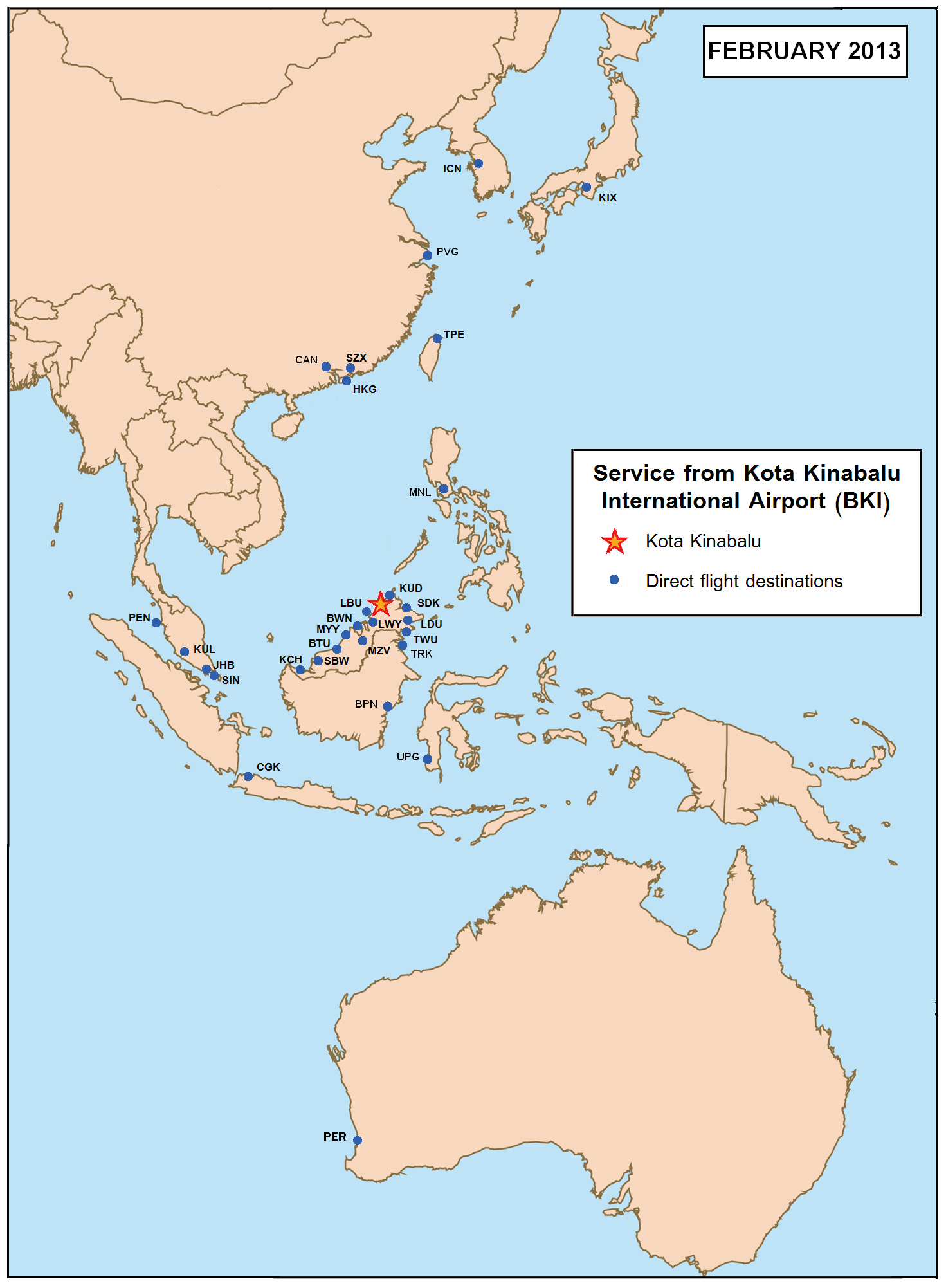 Kota Kinabalu International Airport route map. Base map here: Image:Se asia malaysia.png created by User:Kmusser.